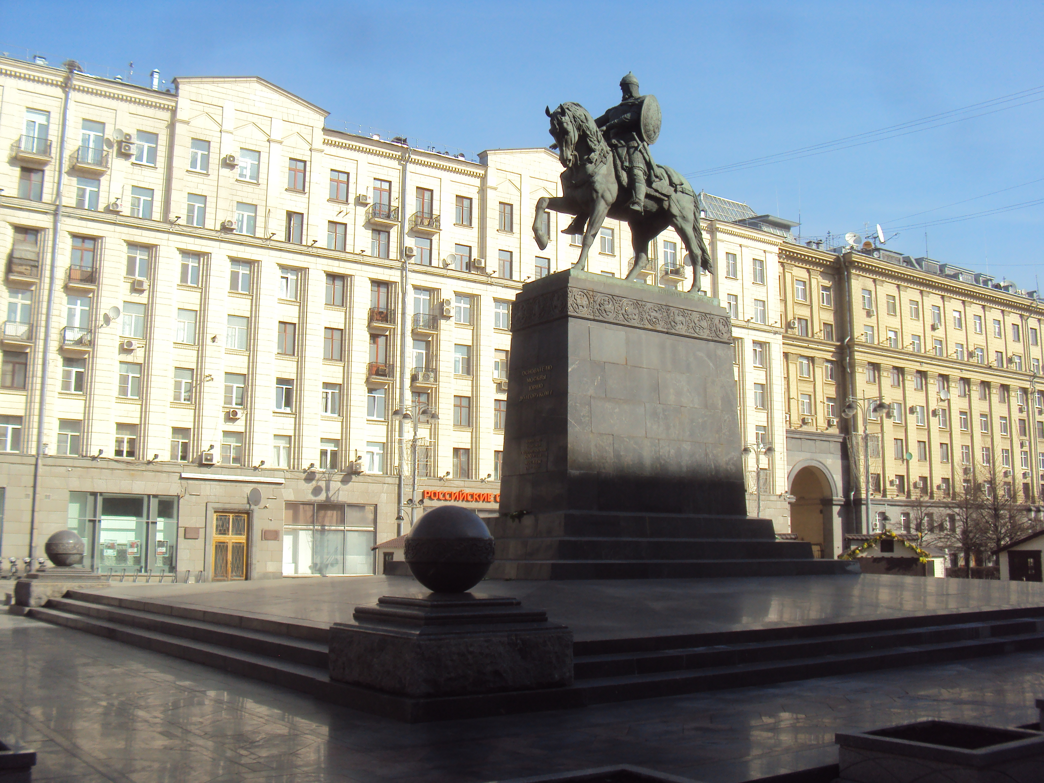 Yury Dolgoruky Monument